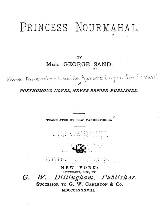 Cover page of novel published in 1888, "Princess Nourmahal" American writer Lew Vanderpoole claimed that this was a translation of an unpublished French manuscript by George Sand, who he claimed was a relation. This was exposed as a hoax in September 1887, yet the novel was still published and attributed to Sand in 1888.